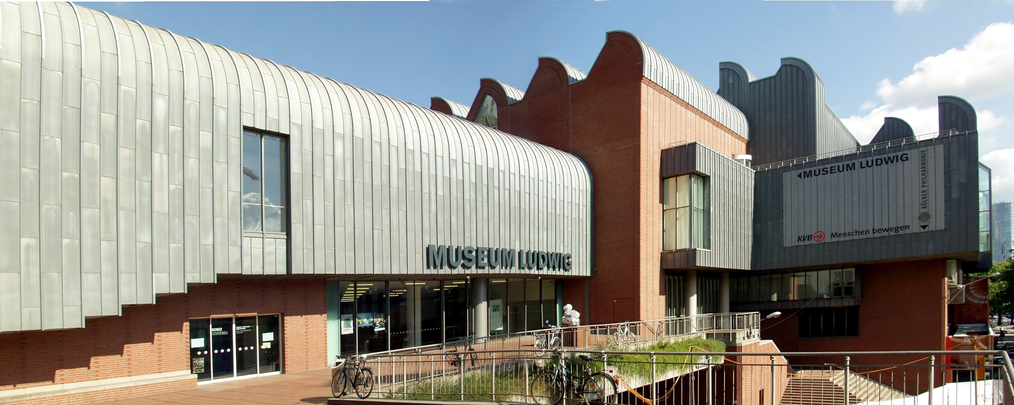 Southern entrance of the Museum Ludwig, Cologne.